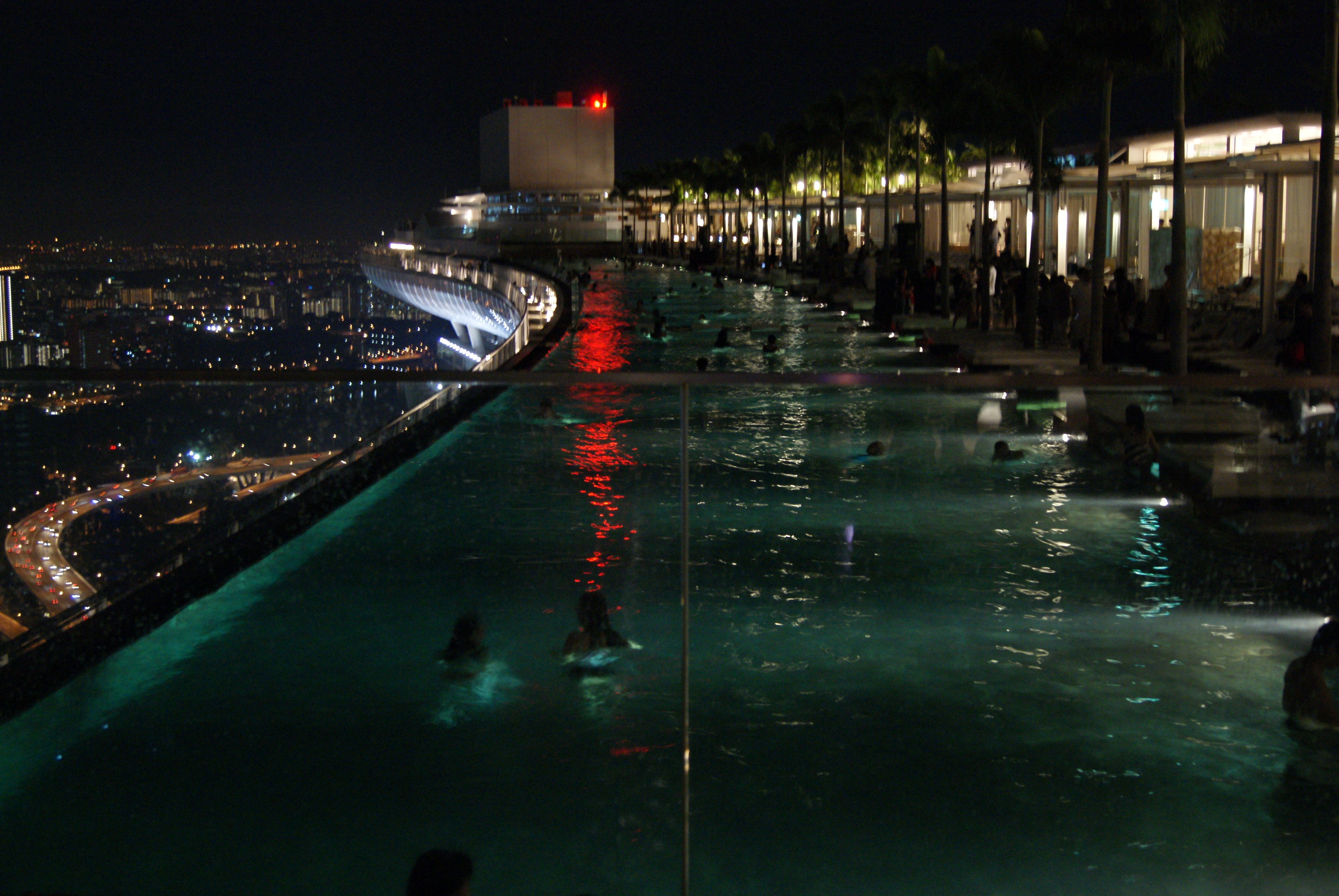 The swimming pool at the Sands Sky Park, Marina Bay Sands Hotel, Singapore.